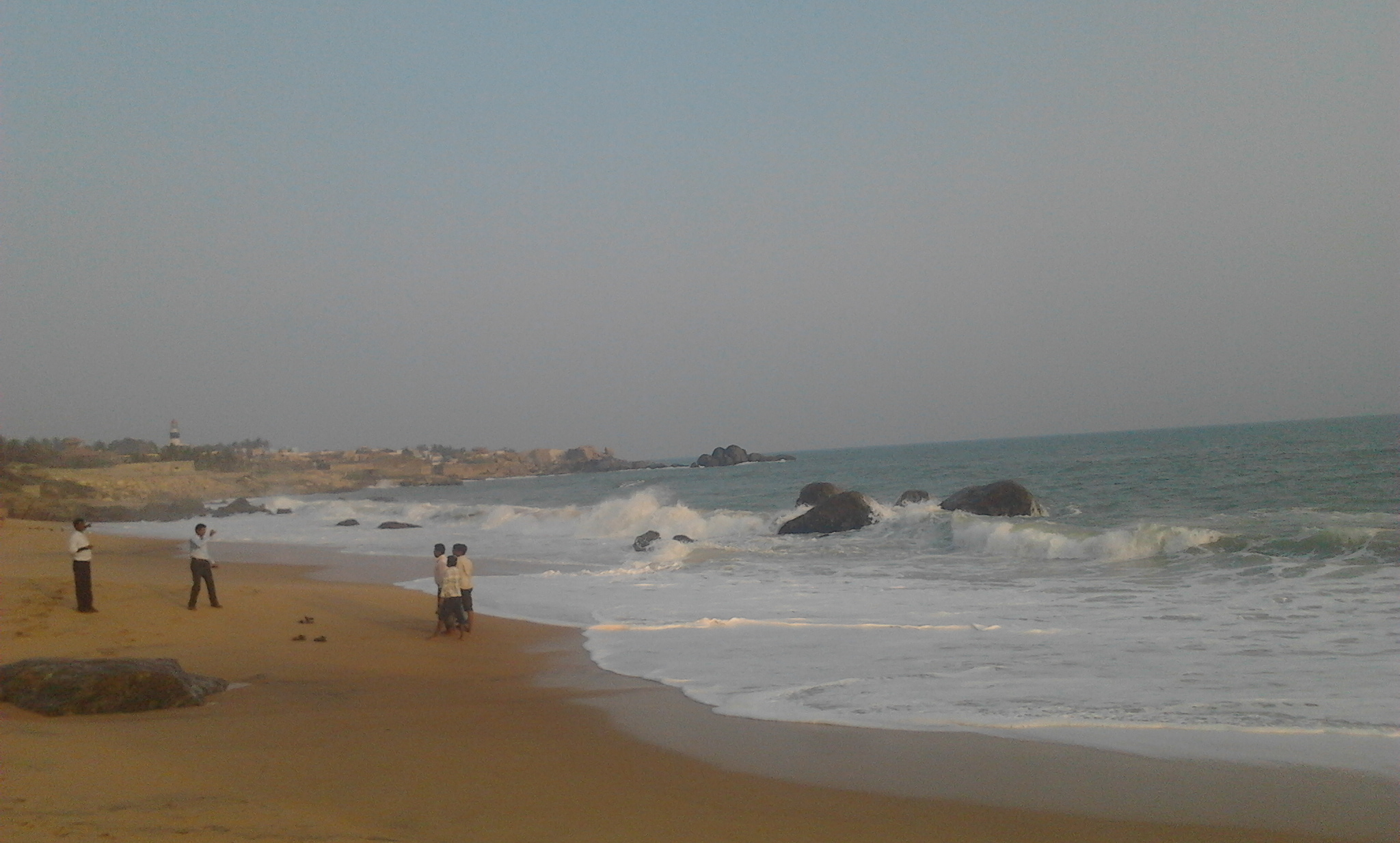 A scenic view of the tidy muttom beach